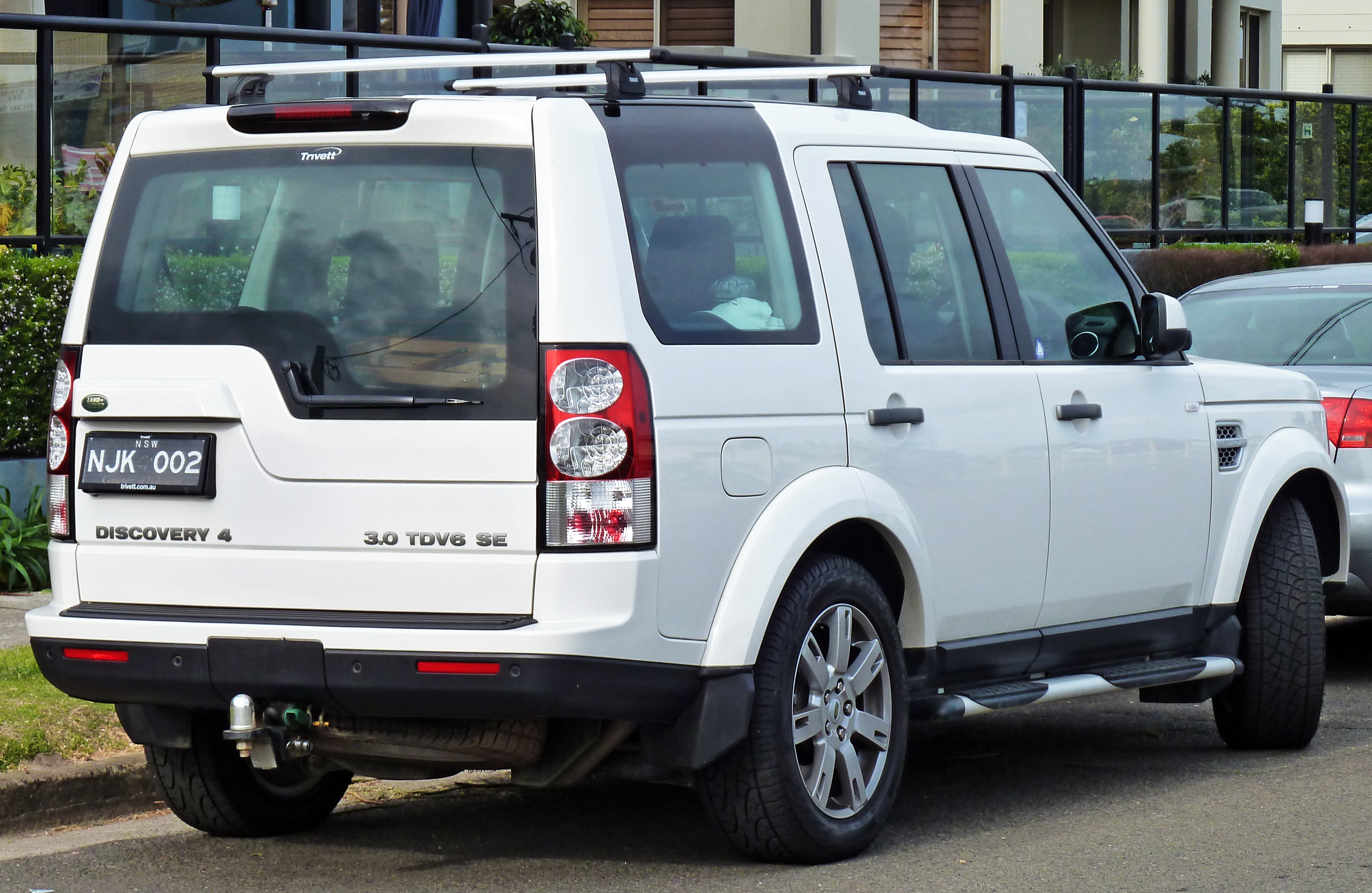 2009–2010 Land Rover Discovery 4 TDV6 SE wagon. Photographed in Sans Souci, New South Wales, Australia.